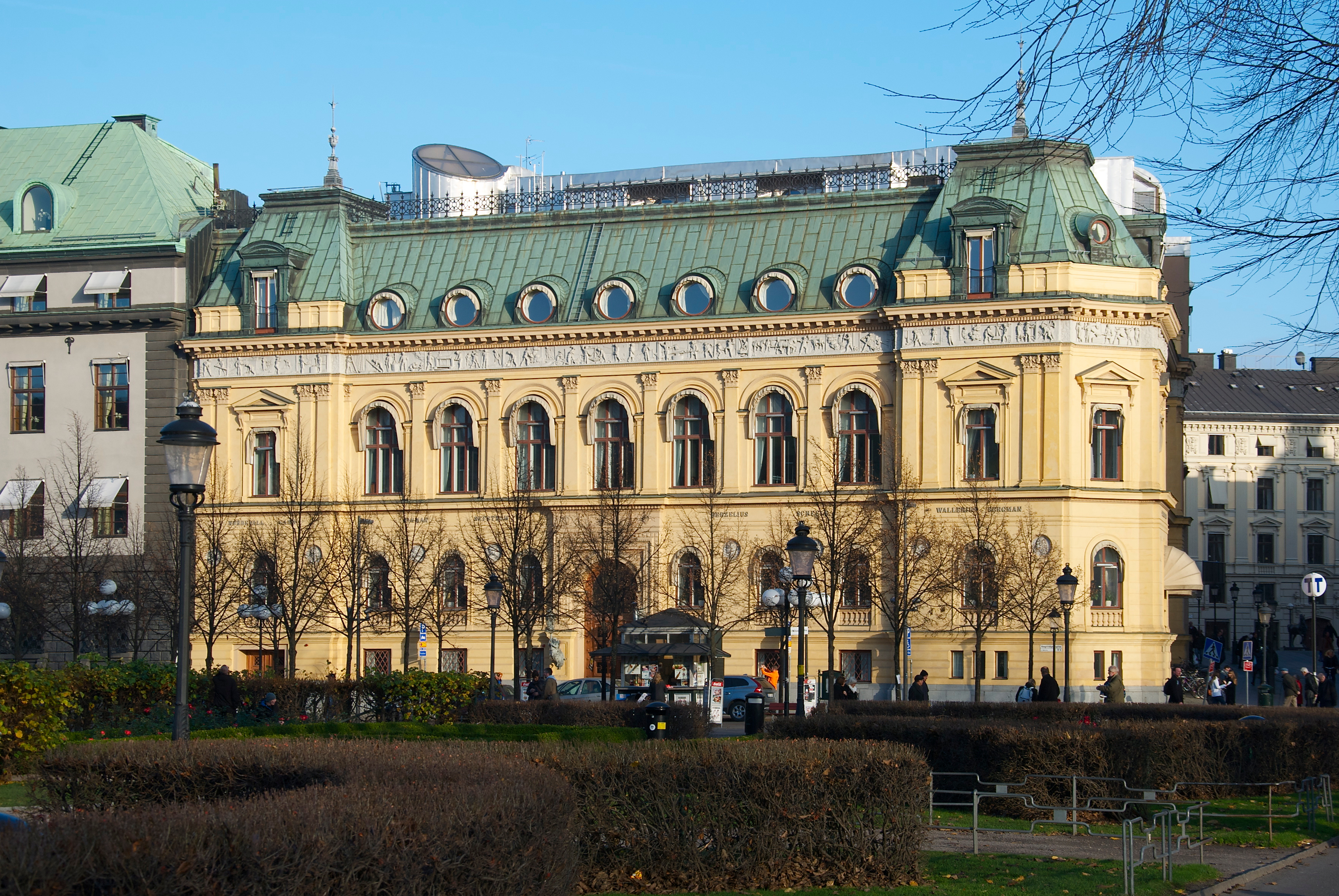 Jernkontoret (Swedish Steel Producers' Association) old building in Stockholm.